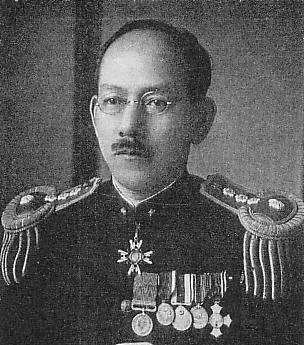 Morio Takahashi(The 34th Superintendent General of the Tokyo Metropolitan Police Department)